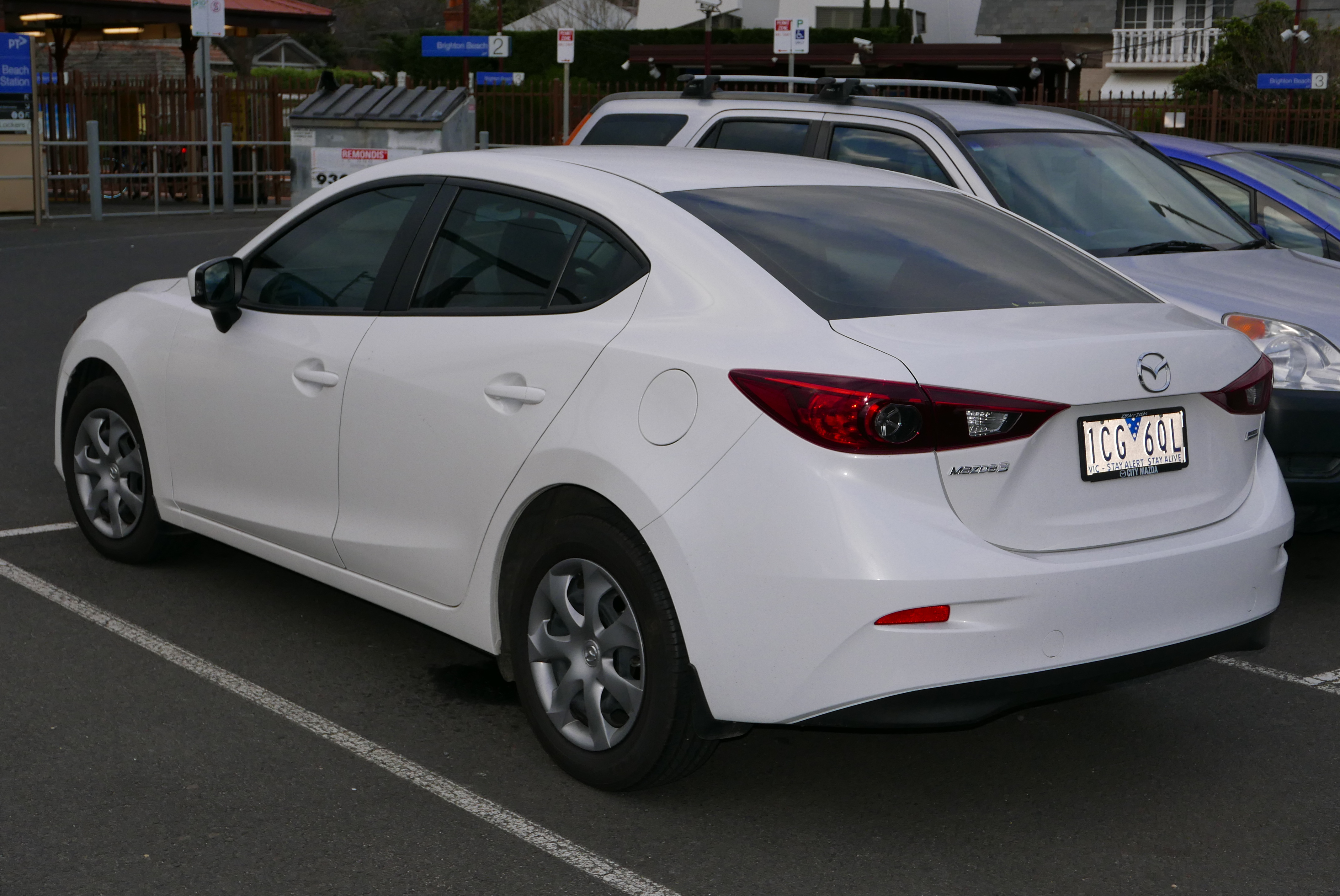 2014 Mazda3 (BM) Neo sedan. Photographed in Brighton, Victoria, Australia. Vehicle registration enquiry resultsJurisdictionVictoriaRegistration1CG6QLChassis codeJM0BM527810118183Engine codePE20465339Compliance date2014-03Year of manufacture2014